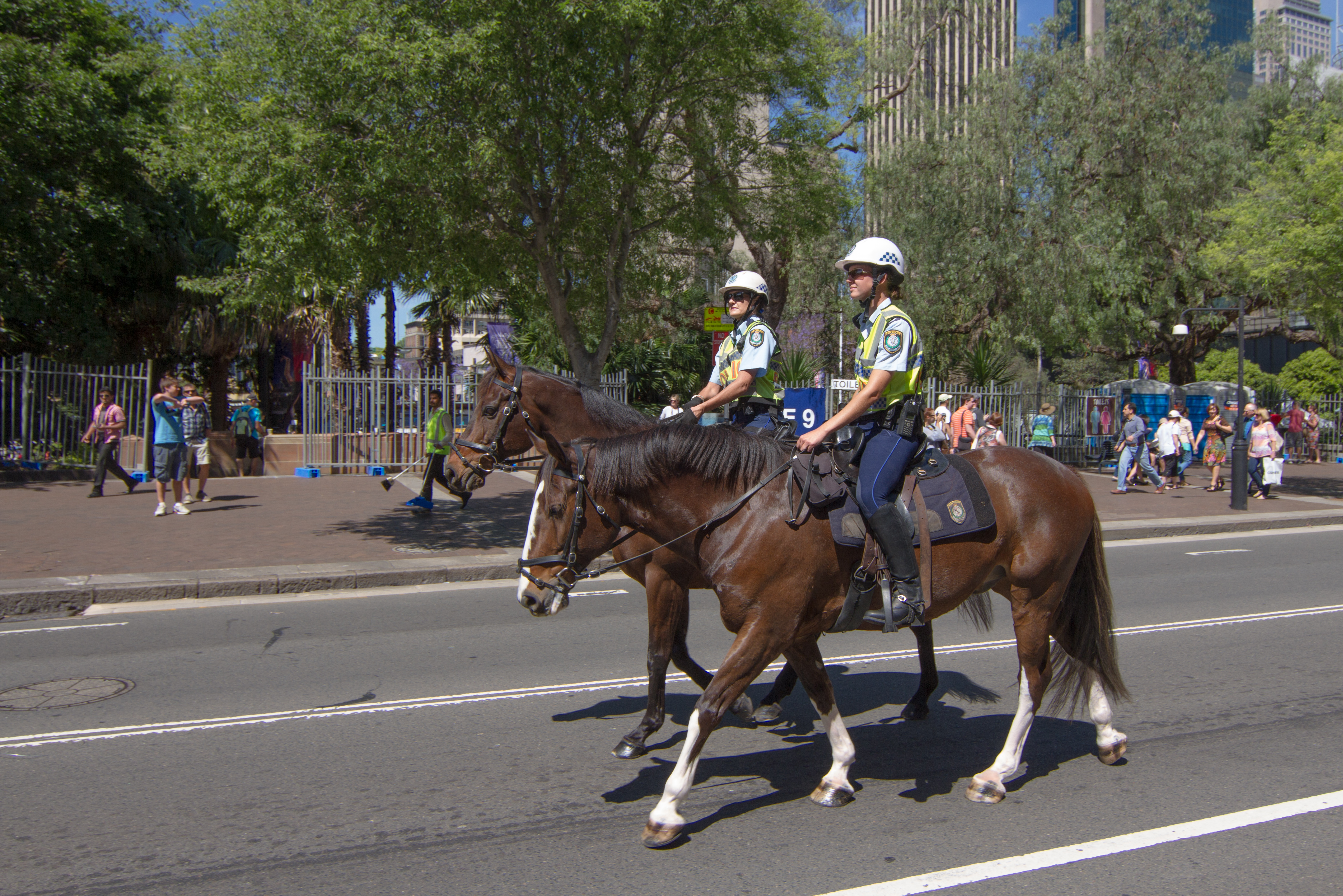 The Rocks NSW 2000, Australia